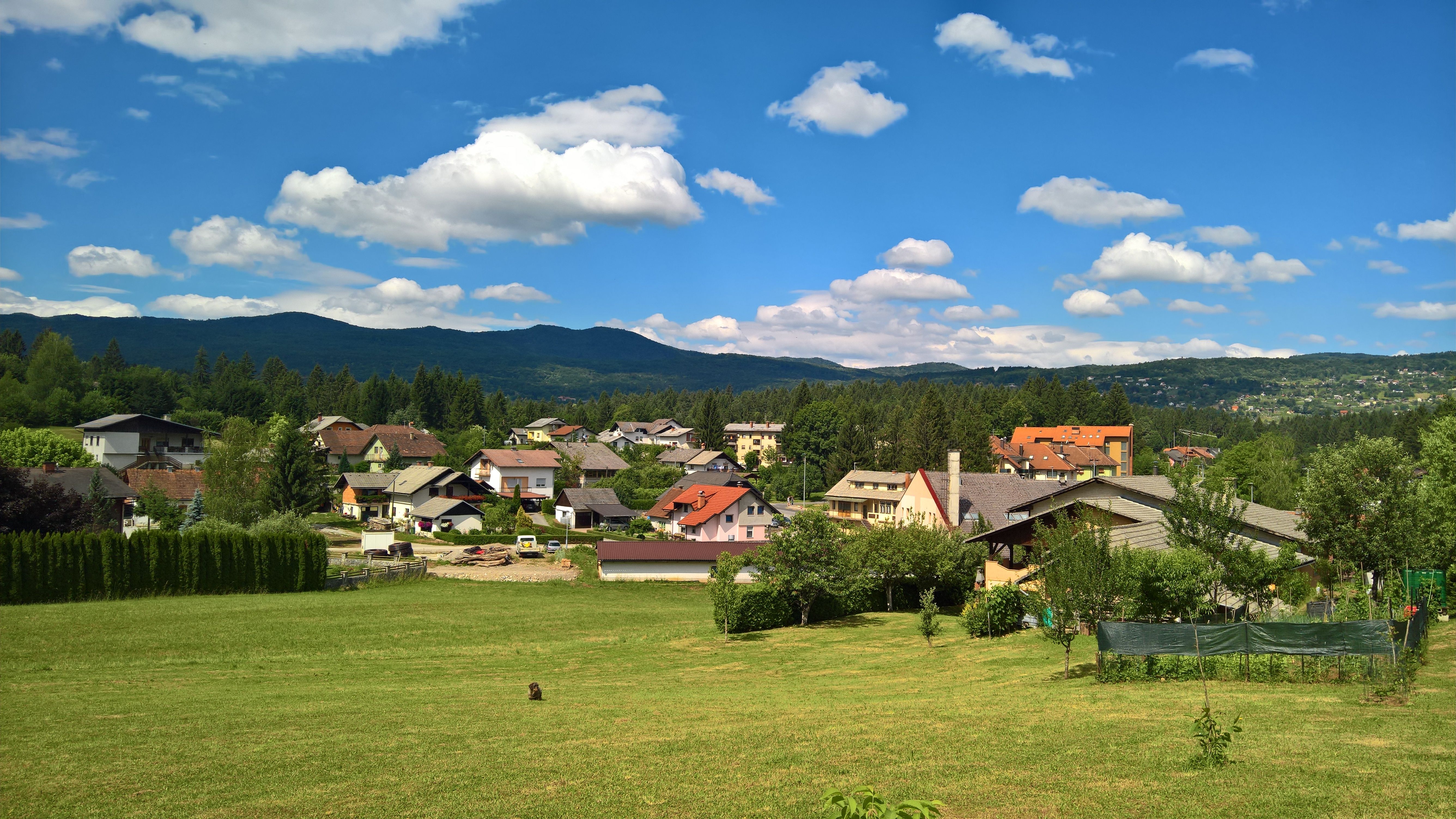 Kanižarica near Črnomelj, Slovenia